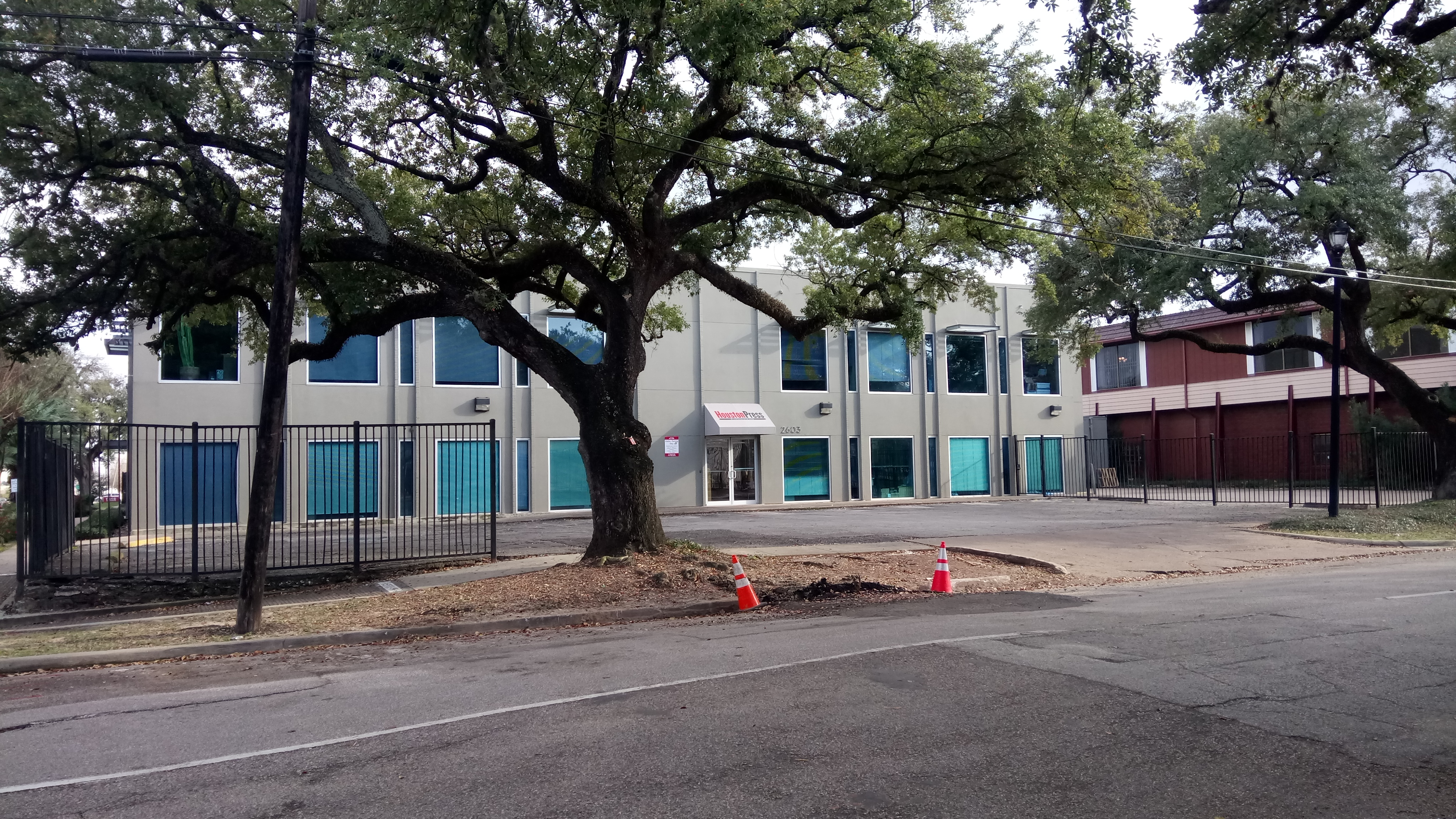 Houston Press former headquarters - 2603 La Branch Street, Houston TX 77004